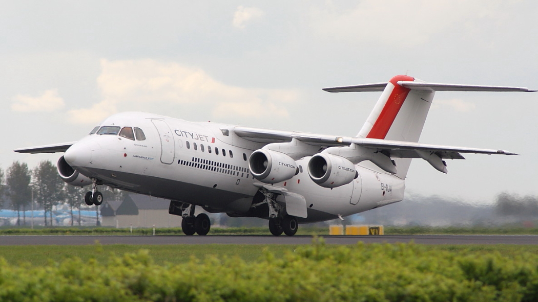 rotate City Jet BAE-146 (The airport appears to be Amsterdam Schipol, Mtaylor848 (talk) 20:36, 1 November 2010 (UTC))